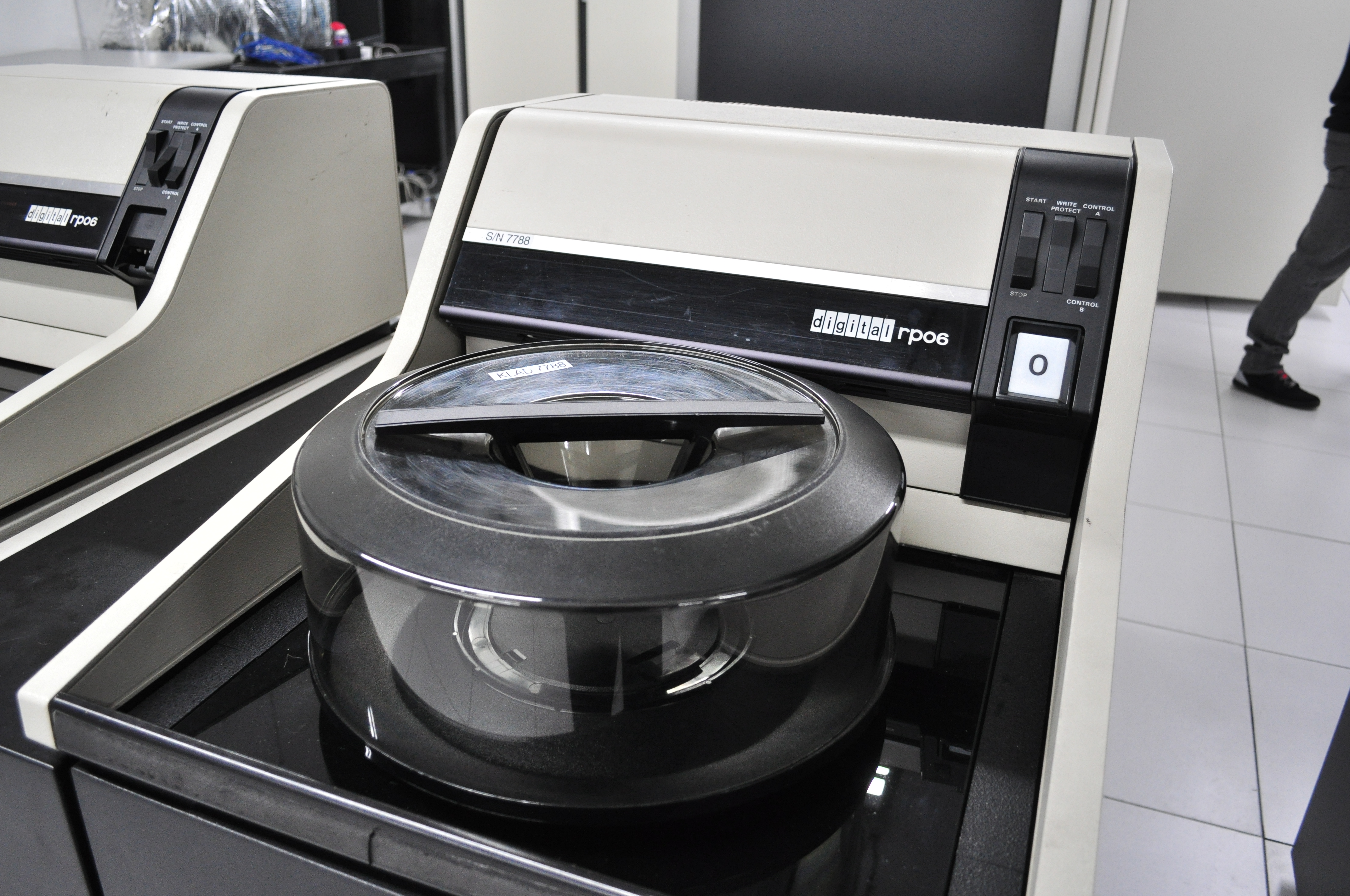 Detail, Digital Equipment Corporation (DEC) RP06 disc drive, Living Computer Museum, Seattle, Washington, USA.